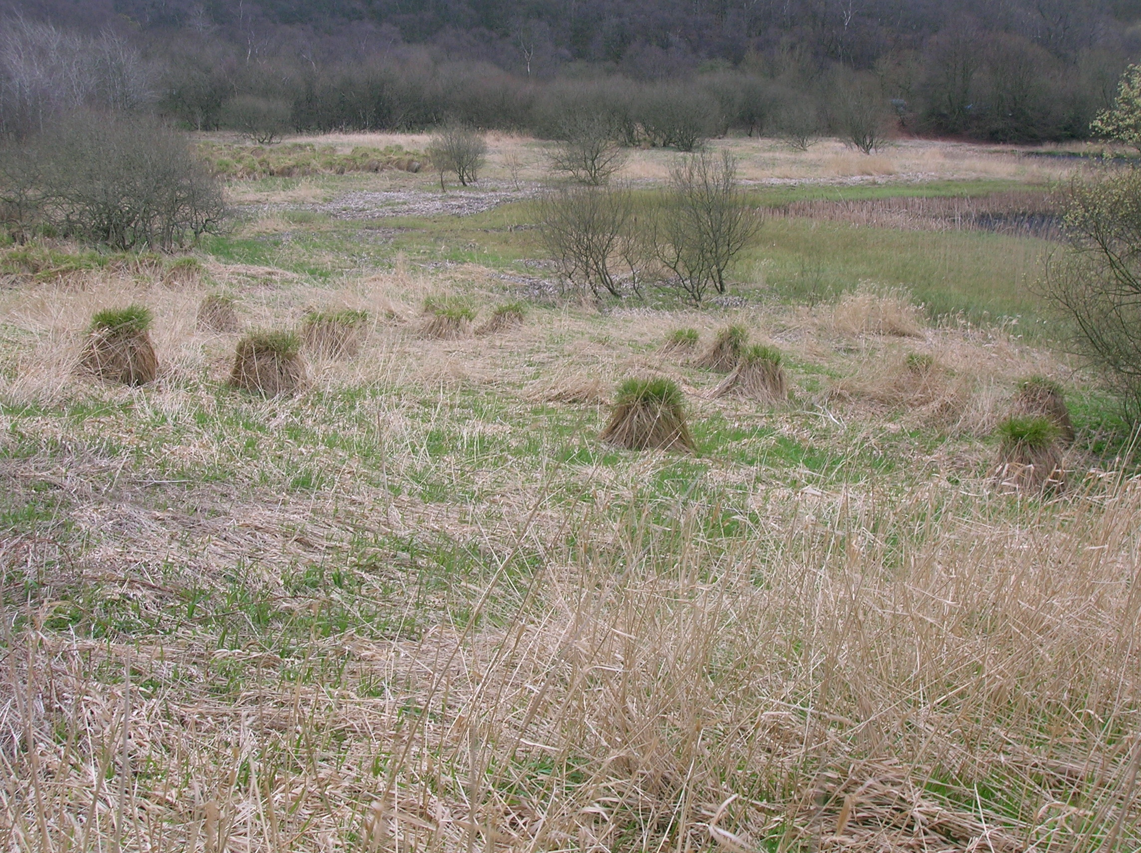 Loch Libo in Renfrewshire, Scotland, showing Greater Tussock Sedge (Carex paniculata)